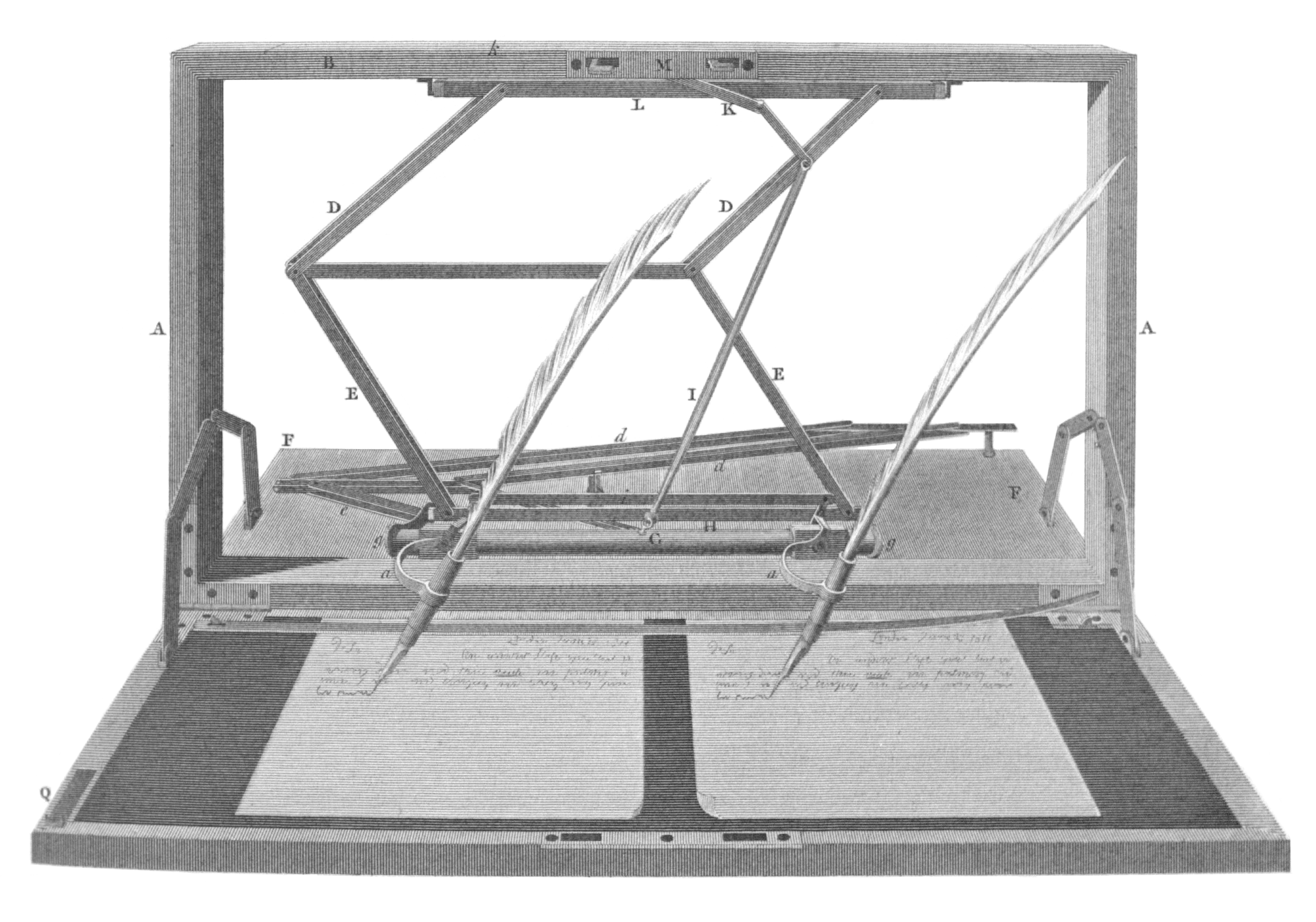 Detail of a figure labelled "Hawkin's patent Polygraph". Engraving of John Hawkin's polygraph, used for producing duplicates of writing. For explanatory text, see entry on "COPYING", volume 9 of the Cyclopædia.